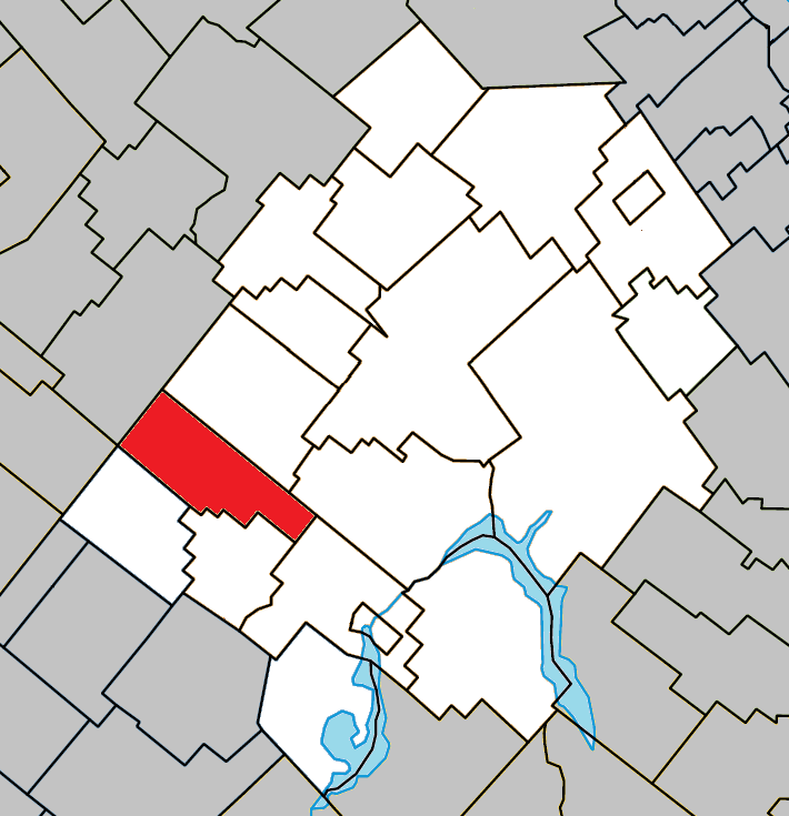 Location of Saint-Julien, Quebec within Les Appalaches Regional County Municipality.